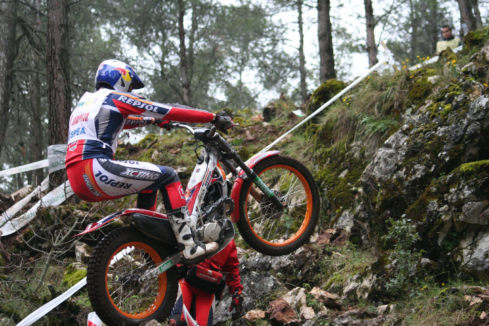 Dougie Lampkin @ FIM Trial World Championship 2007 R1(Spain)